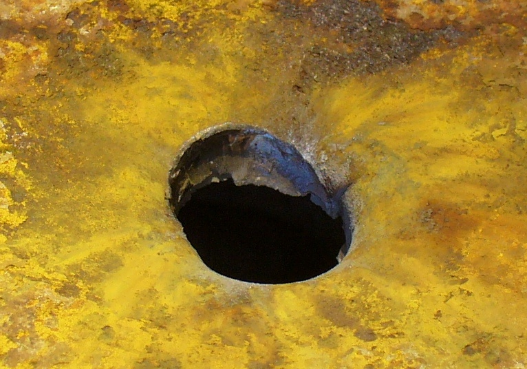 .50 Beowulf 334 gr. hollowpoint shot from 16" Barrel Beowulf rifle at 36 yards penetrated one quarter inch (1/4") thick steel plate.